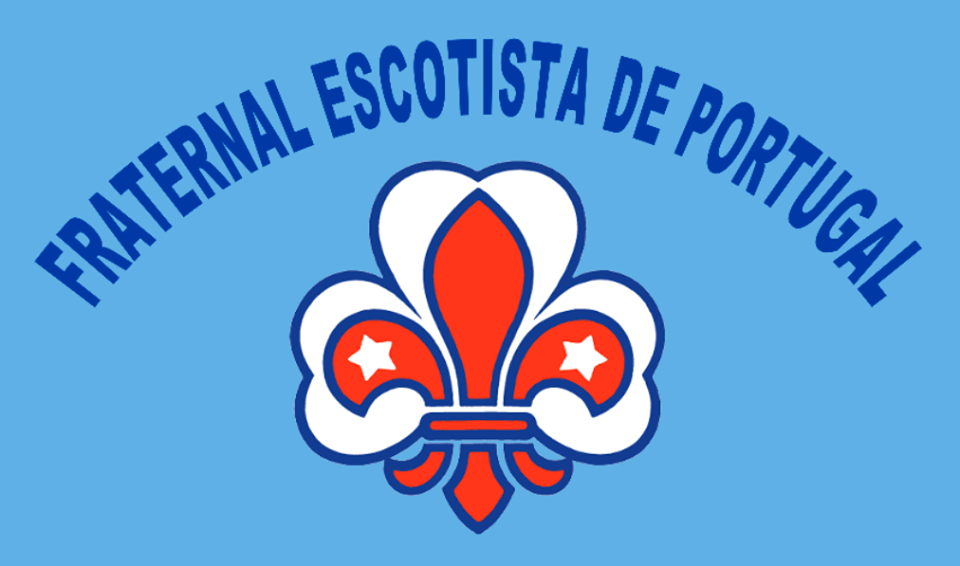 Flag of "Fraternal Escotista de Portugal" (Scout and Guide Fellowship of Portugal)